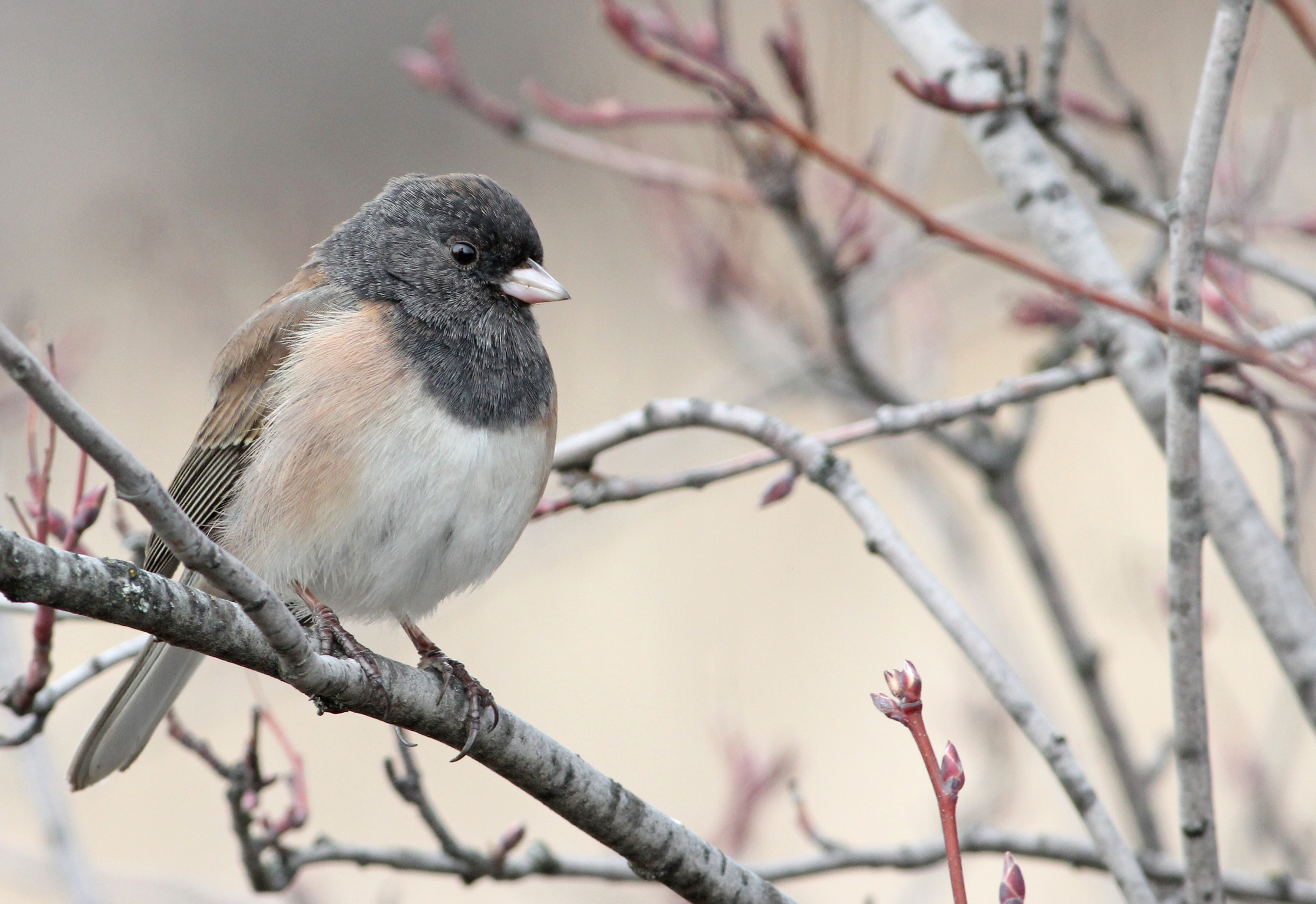 An Oregon junco in late spring (March 2, 2013) on the University of British Columbia Okanagan campus.